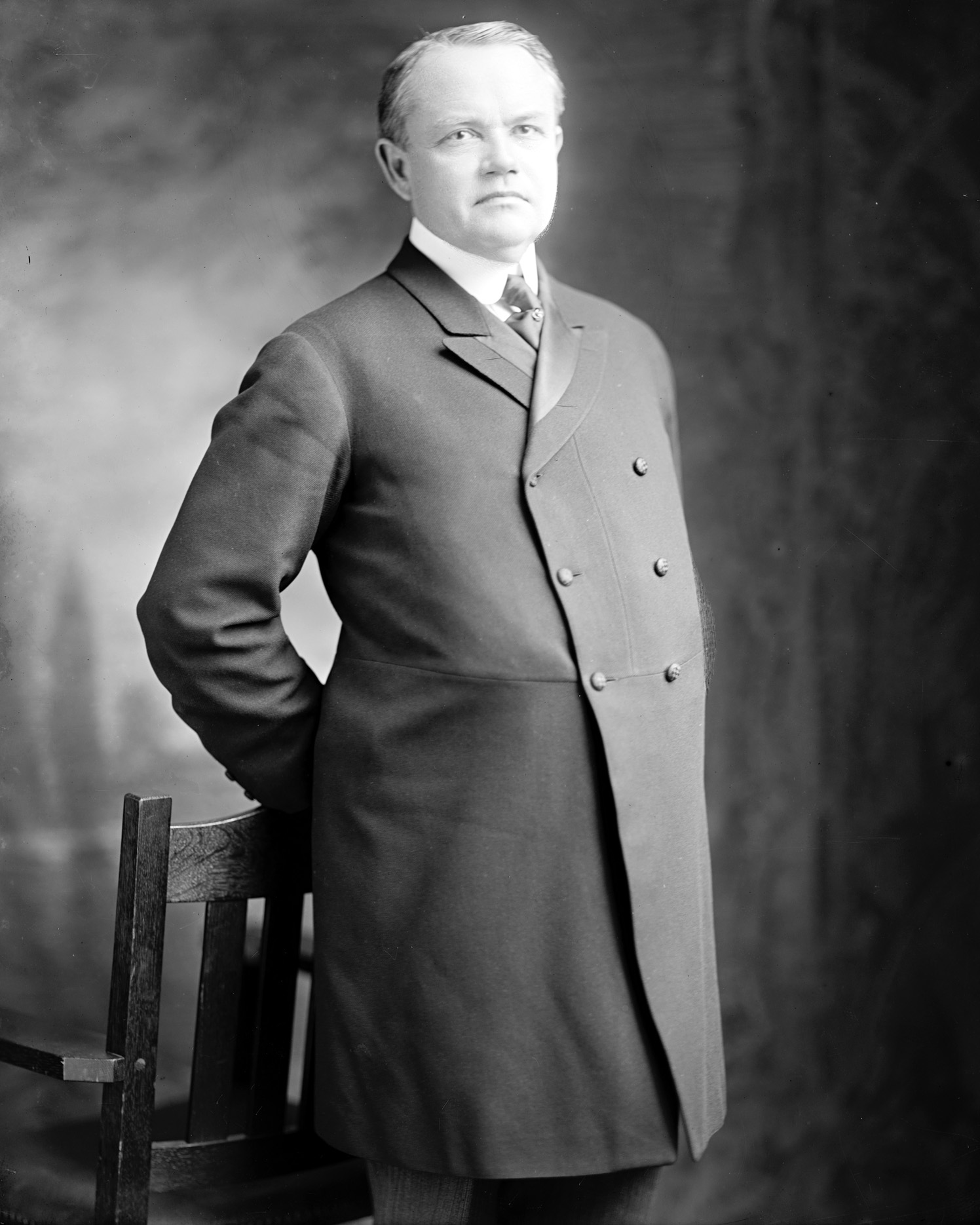 William Gordon Brantley, US Representative from Georgia